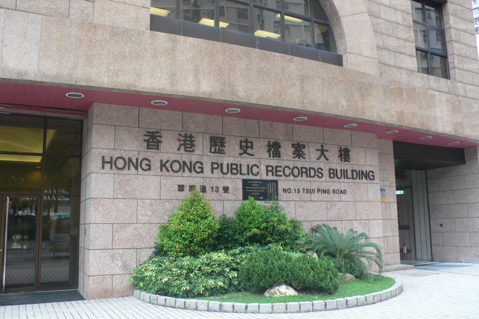 The main entrance of Hong Kong Public Records Building